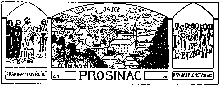 Croatian Catholic calendar in Bosnia and Herzegovina, 1930. Jajce